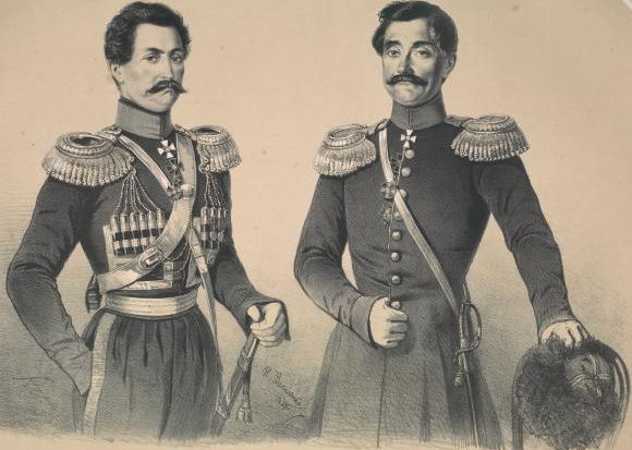 Georgian Aristocracy during the Russian Empire: General Prince Iakob Chavchavadze and General Prince Regent I. K. Bagrationi-Mukhraneli (Bagration-Mukhranskii)